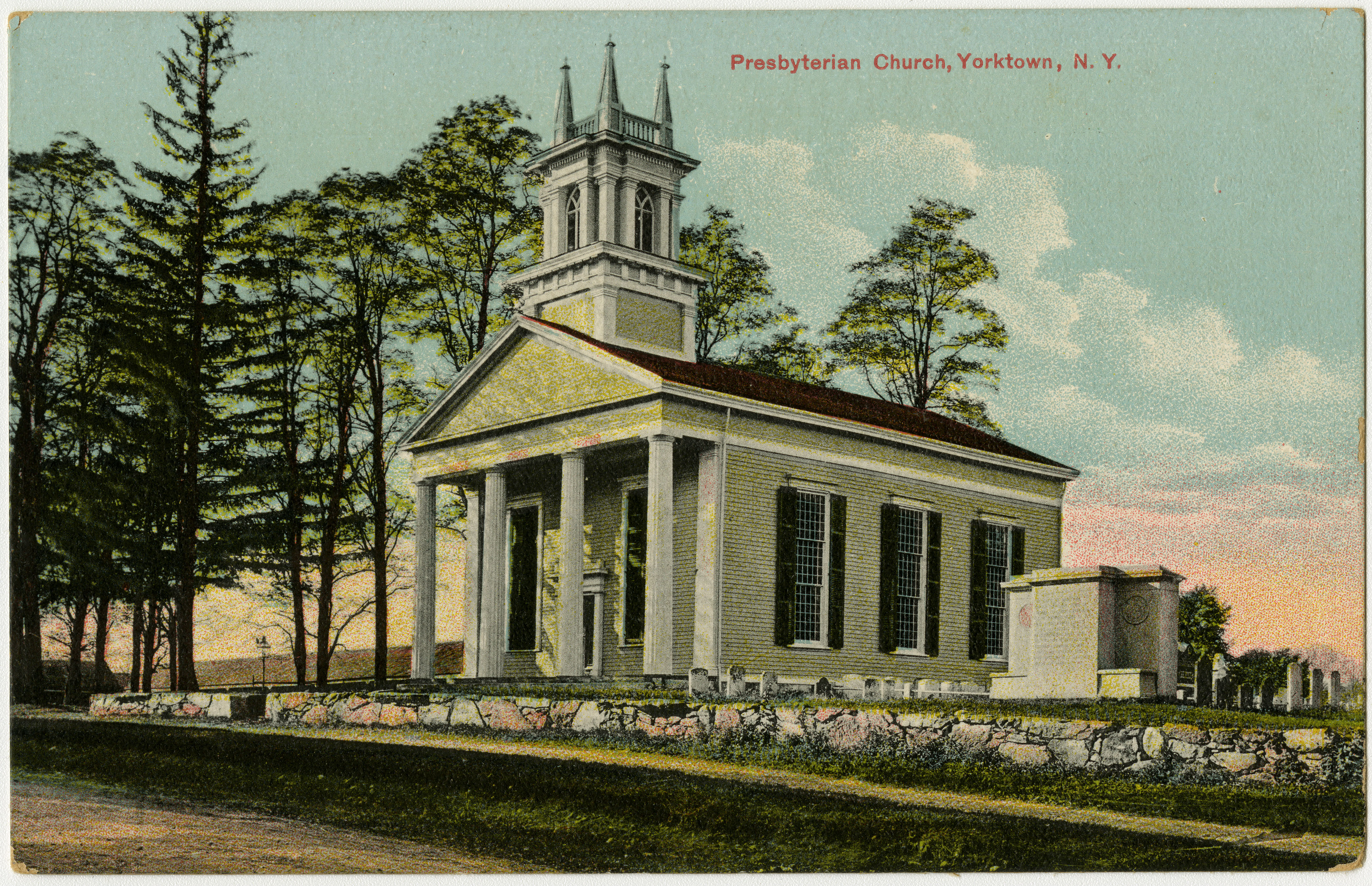 Presbyterian church in Yorktown, New York from a pre-1923 postcard From RG 428, Postcard Collection, Presbyterian Historical Society, Philadelphia, Pennsylvania